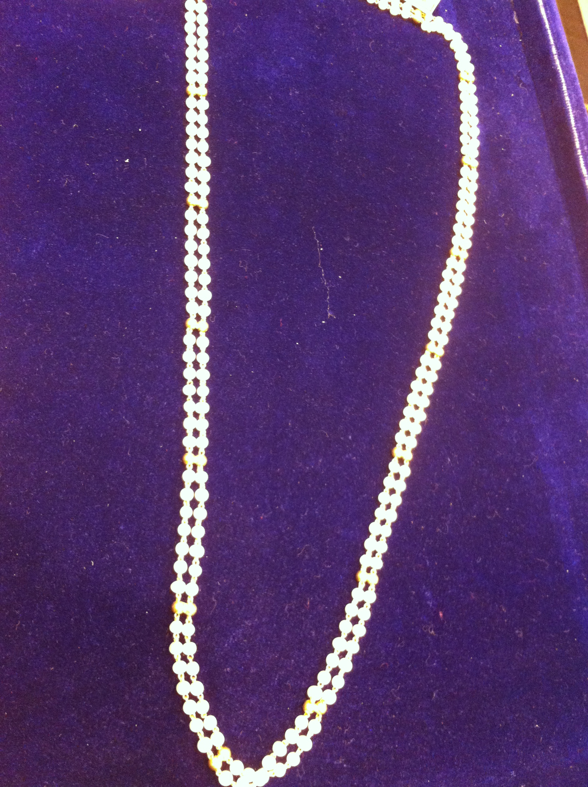 Jewellery of Tamil Nadu